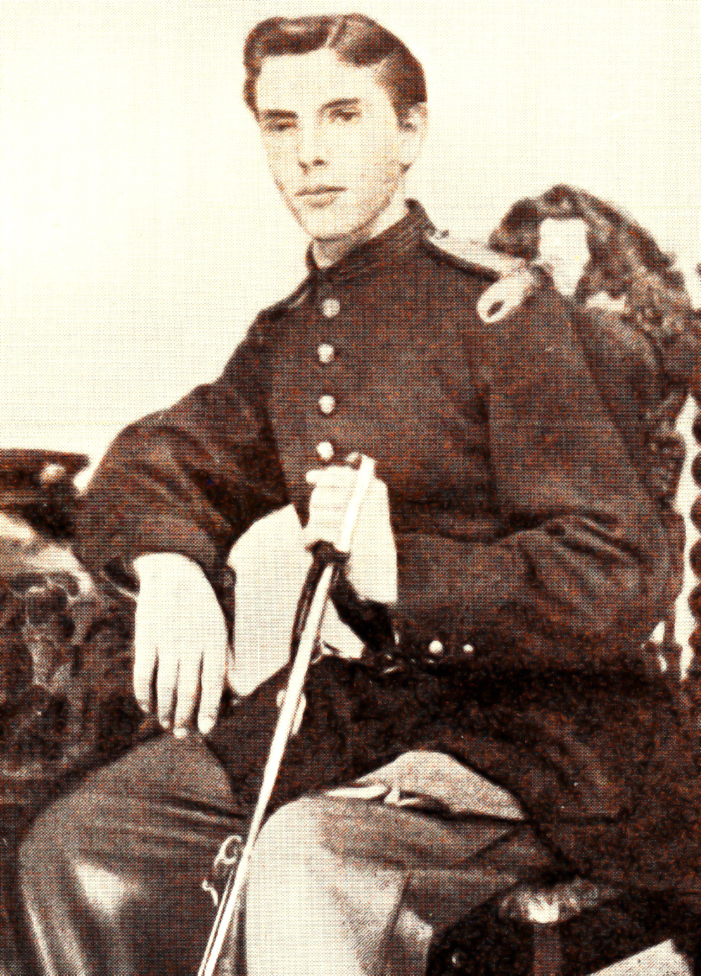 Wouter Cool als cadet